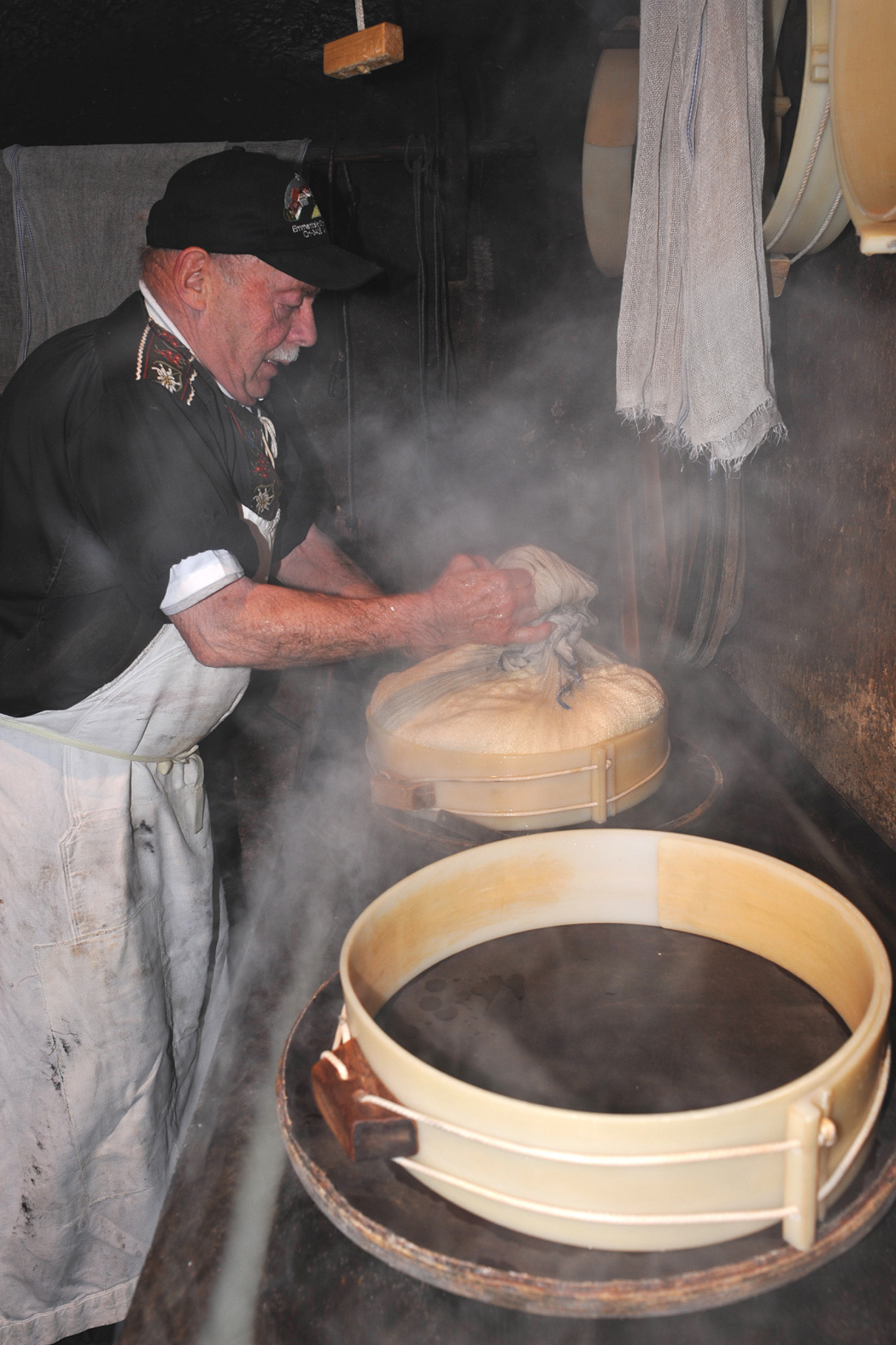 Emmental show dairy, in the "Küherstock"; traditional cheese production; Affoltern, Berne, Switzerland.